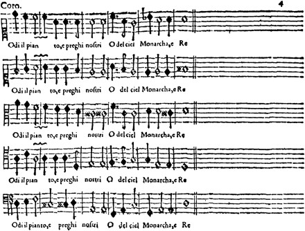 opening scene, five-part chorus. La Dafne (Daphne) is an early Italian opera, written in 1608 by the Italian composer Marco da Gagliano from a libretto by Ottavio Rinuccini.